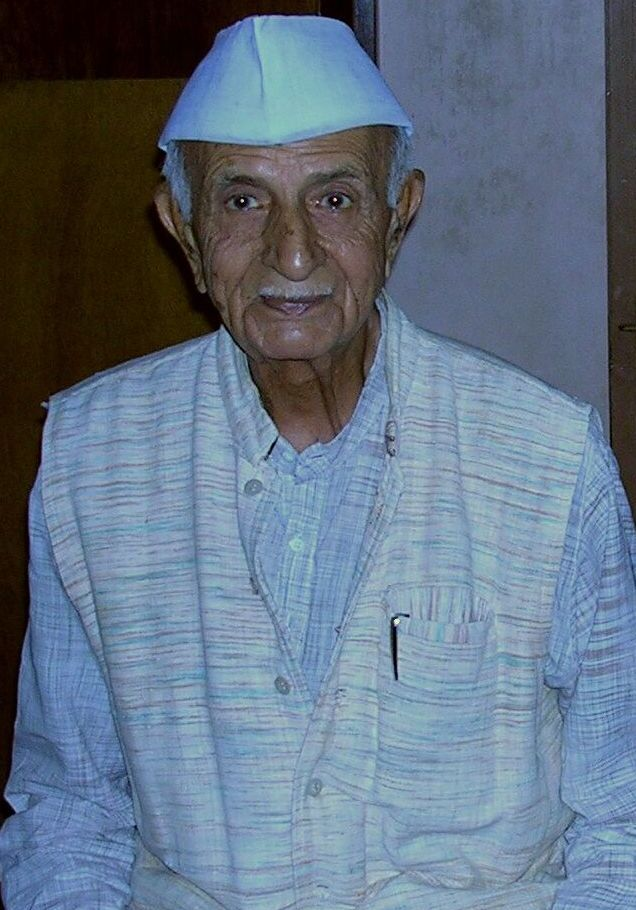 Prof PC Vaidya at his Ahmedabad residence November 2005